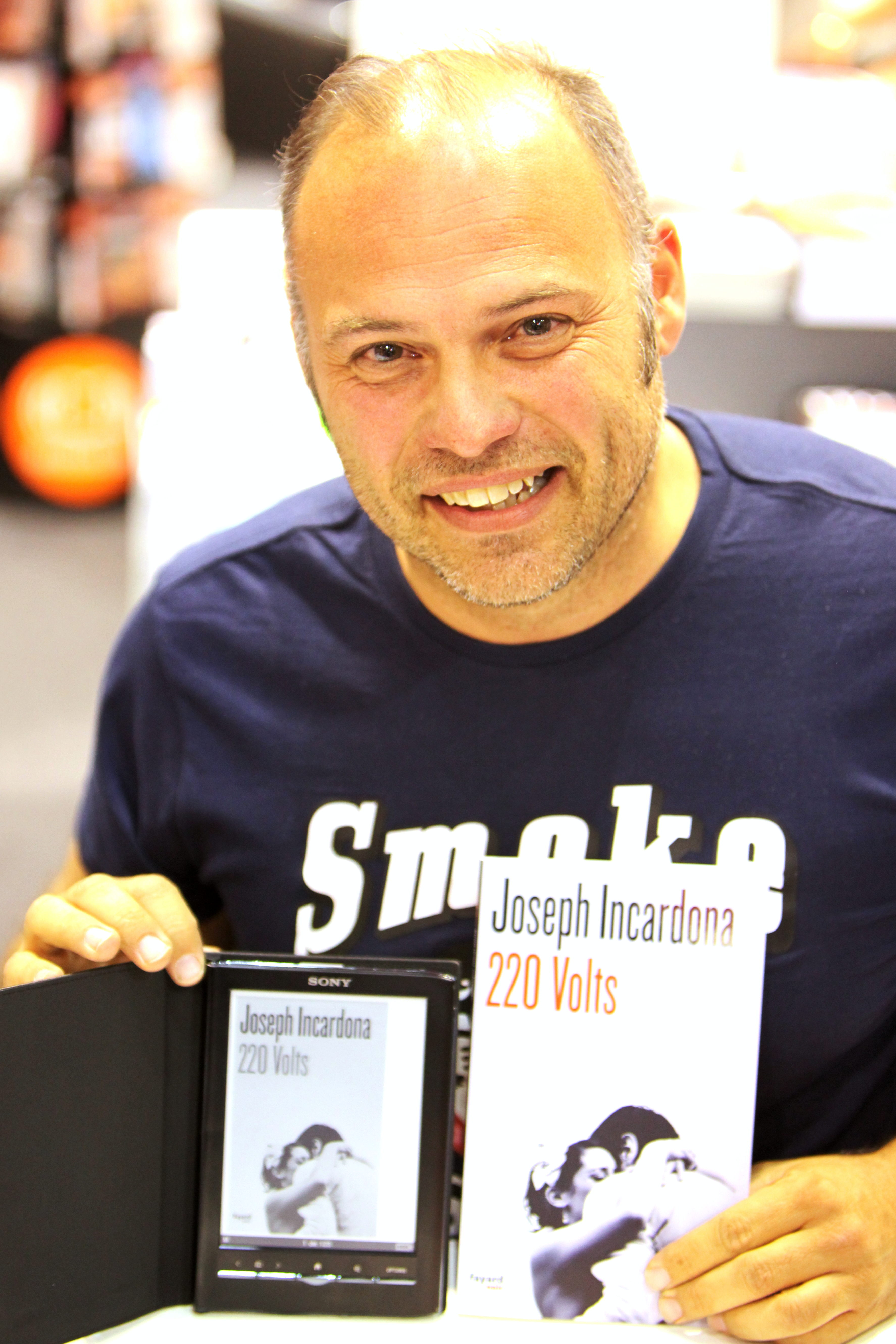 Joseph Incardona at the Salon du Livre 2011 in Geneva The making of this document was supported by Wikimedia CH. (Submit your project!) For all the files concerned, please see the category Supported by Wikimedia CH.